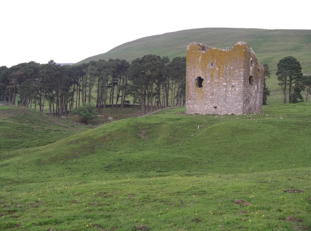 Dryhope Tower. Built in the 1500's for protection against the reivers